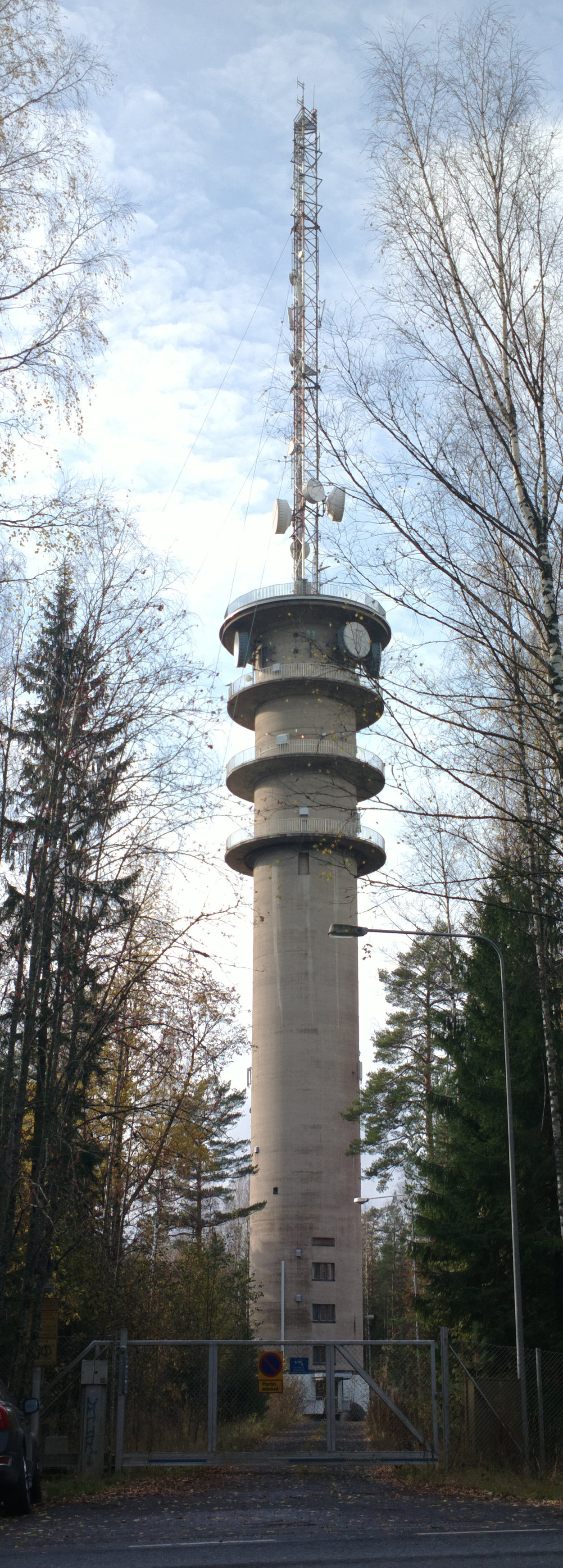 Ylöjärvi TV tower (name in ). Also known as Soppeenmäki TV and radio tower (Finnish Soppeenmäen masto).